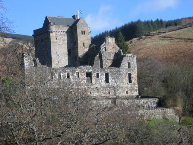 Castle Campbell